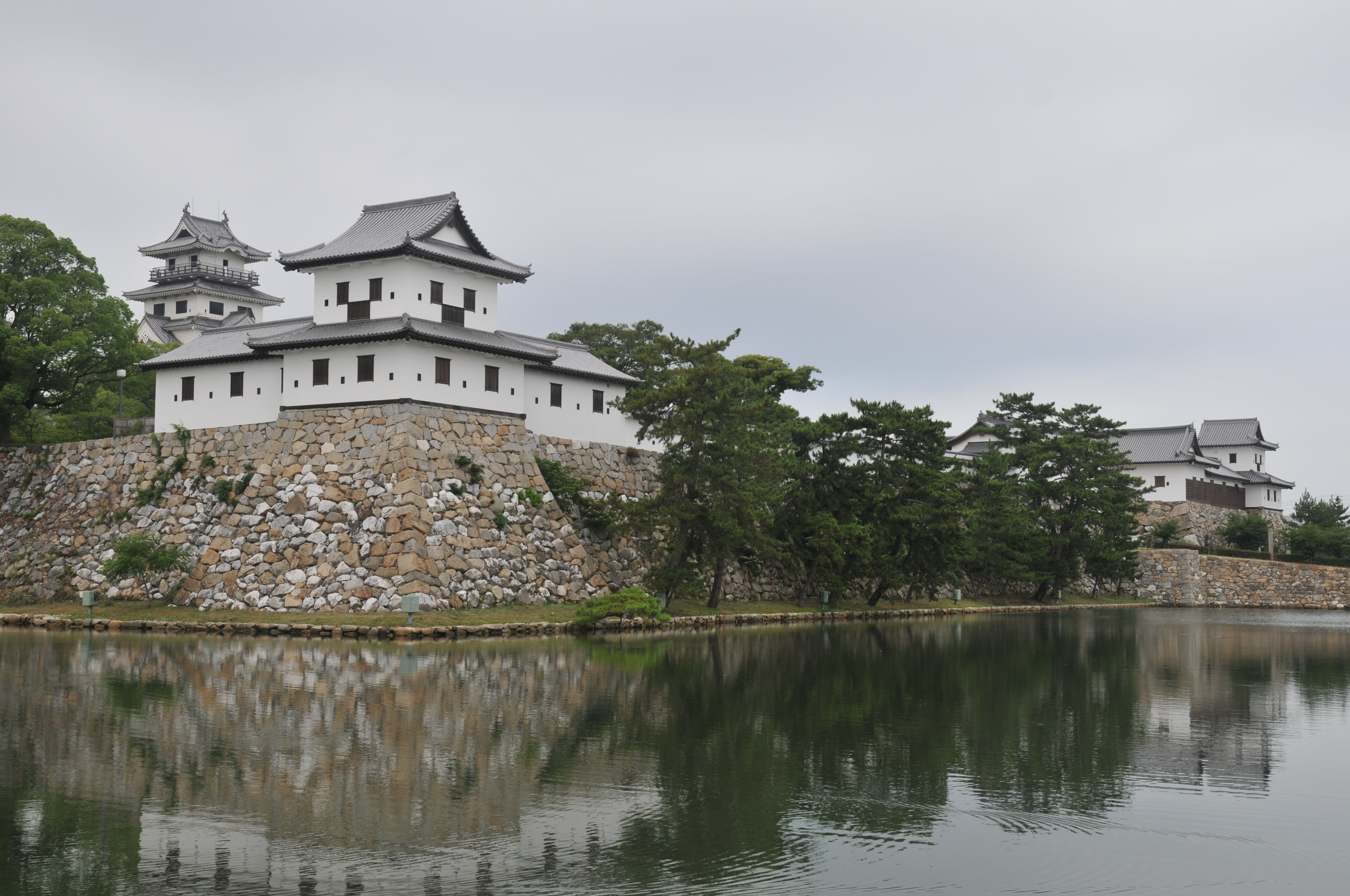 Imabari Castle